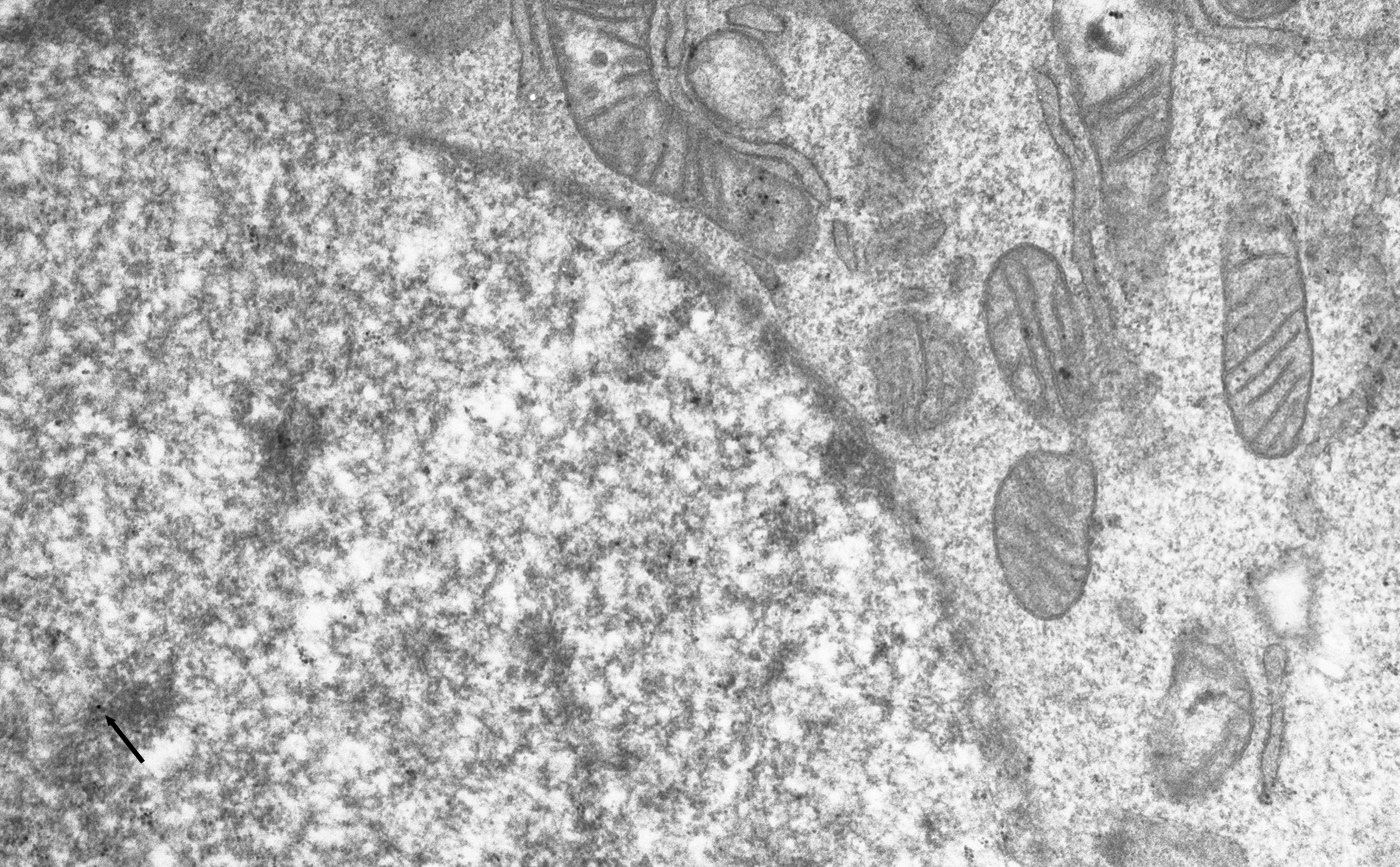 Transmission electron micrograph of a CHO cell, that has plasmid DNA transferred into its nucleus with PepFect14 cell-penetrating peptides. On the right side of the image there are mitochondria. pDNA (pGL3; 4,7 kDa) has been marked with nanogold, that has been enlarged with silver coating to make it visible under the microscope (coated nanogold marker is indicated with an arrow). Institute of Molecular and Cell Biology, University of Tartu.